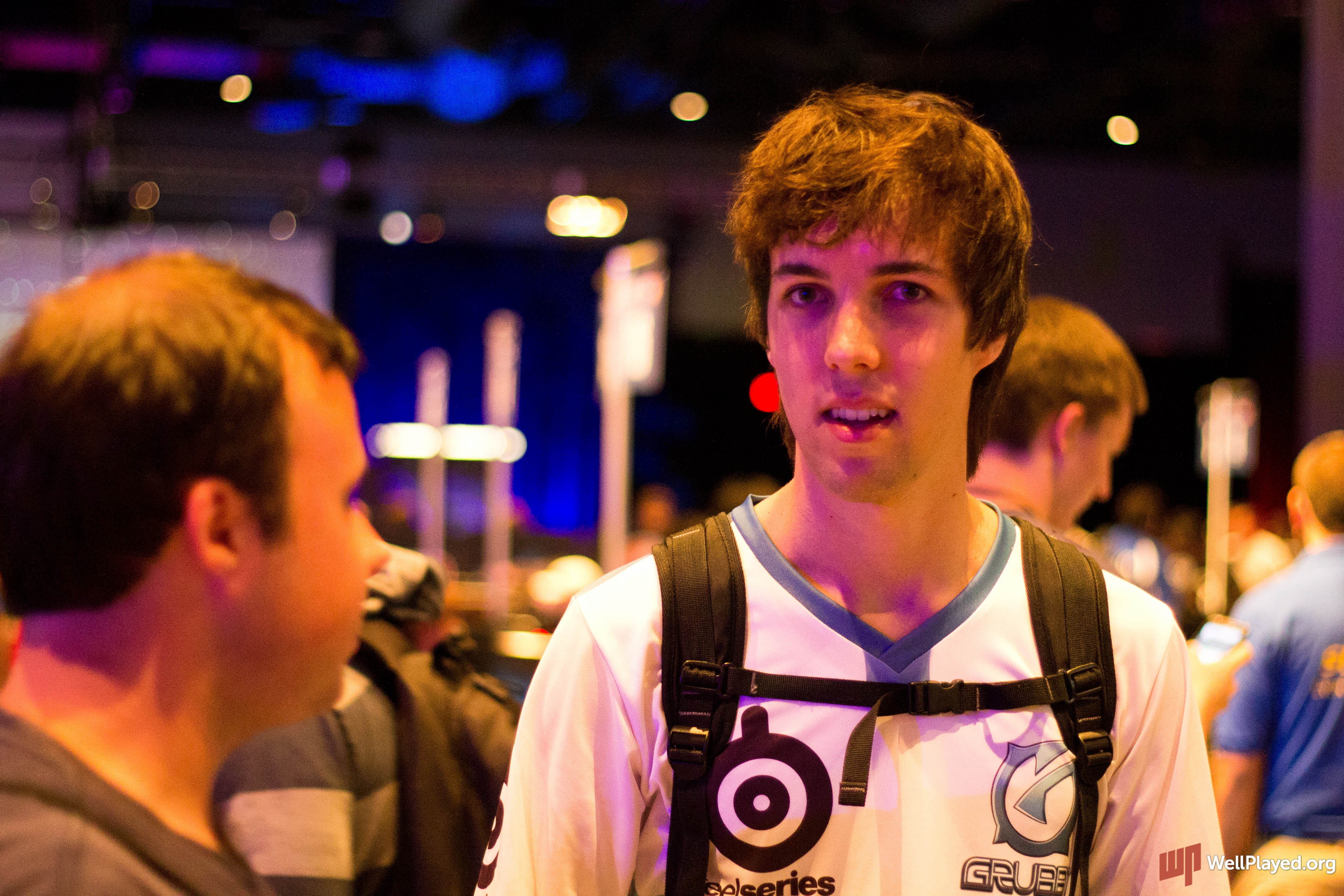 The professional Starcraft II Player Manuel "Grubby" Schenkhuizen at the MLG Raleigh 2011